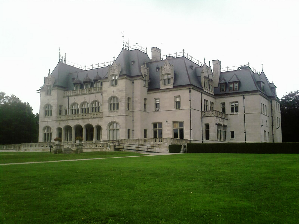 Camera phone upload powered by ShoZu